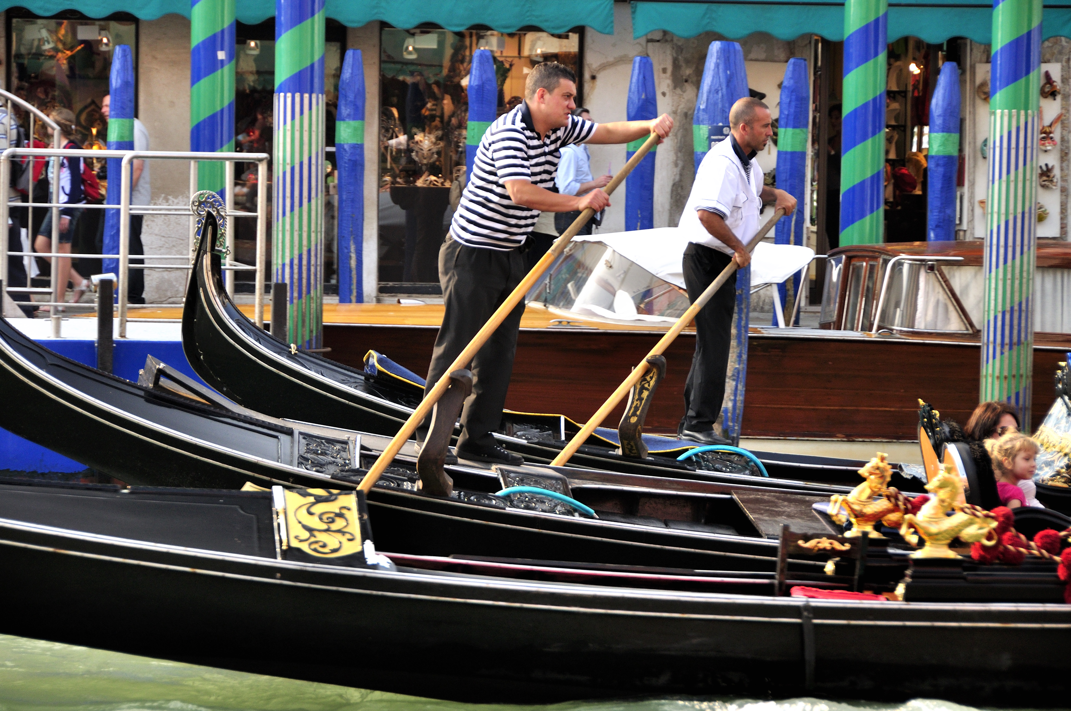 The water streets of Venice are canals which are navigated by gondolas and other small boats. During daylight hours the canals, bridges, and streets of Venice are full of tourists eager to experience the romance of this great travel destination. As night engulfs the town, tourists enjoy some fine dining at one of the many restaurants, leaving the waterways and streets quiet. The gondola is a traditional, flat-bottomed Venetian rowing boat, well suited to the conditions of the Venetian Lagoon. For centuries gondolas were once the chief means of transportation and most common watercraft within Venice. In modern times the iconic boats still have a role in public transport in the city, serving as ferries over the Grand Canal. They are also used in special regattas (rowing races) held amongst gondoliers. Their main role, however, is to carry tourists on rides throughout the canals. Gondolas are hand made using 8 different types of wood (fir, oak, cherry, walnut, elm, mahogany, larch and lime) and are composed of 280 pieces. The oars are made of beech wood. The left side of the gondola is longer than the right side. This asymmetry causes the gondola to resist the tendency to turn toward the left at the forward stroke.